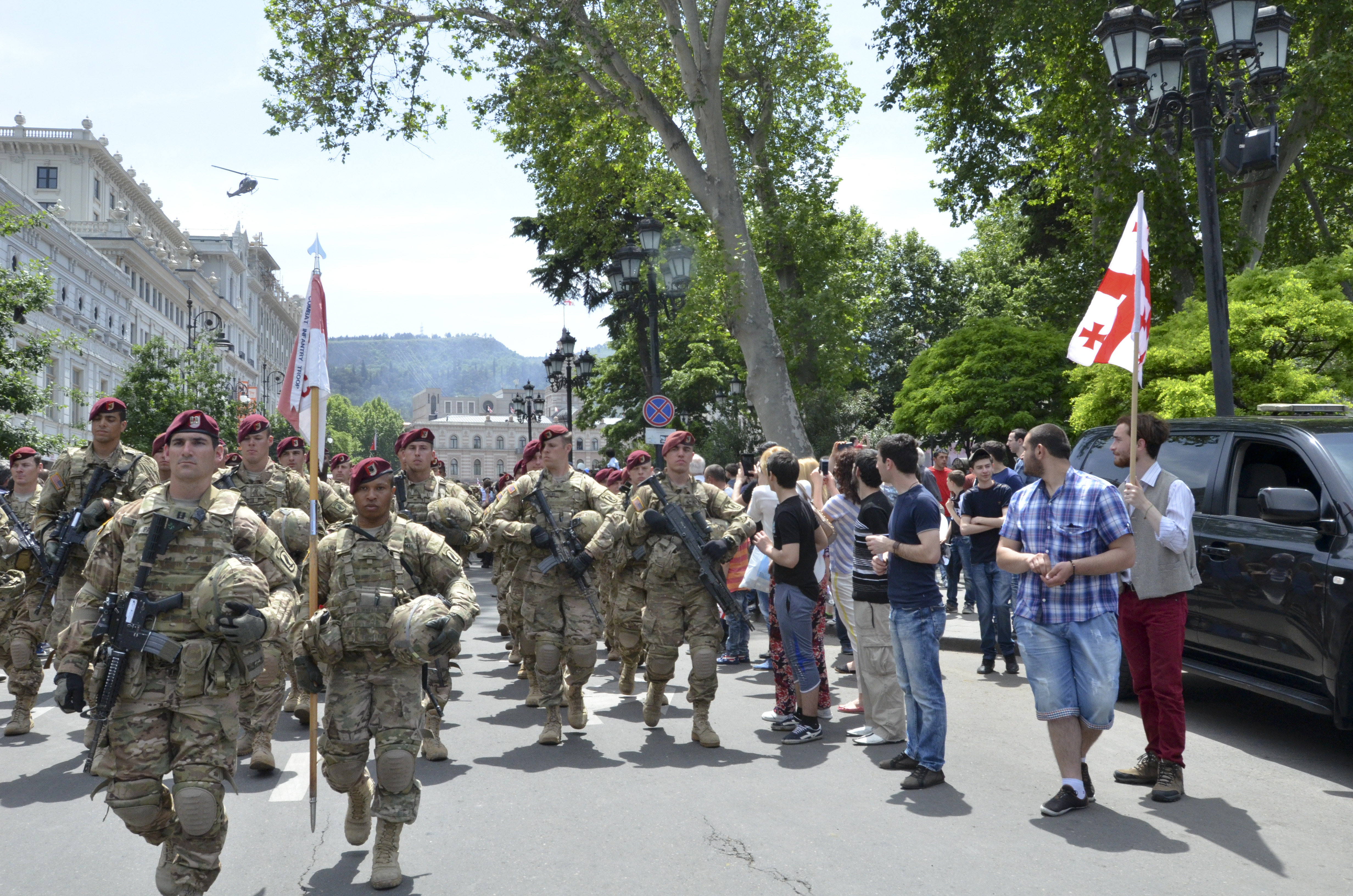 TBILISI, Georgia--U.S. Army paratroopers from the 173rd Airborne Brigade participated in the 26th anniversary celebration of Georgia's independence here May 26, 2015. The 173rd is in Georgia to train with partners from the Georgian 1st Infantry Brigade, in order for the two forces to increase their interoperability within the European theater. The two recently completed the two-week training Exercise Noble Partner, which included combined live-fire training.